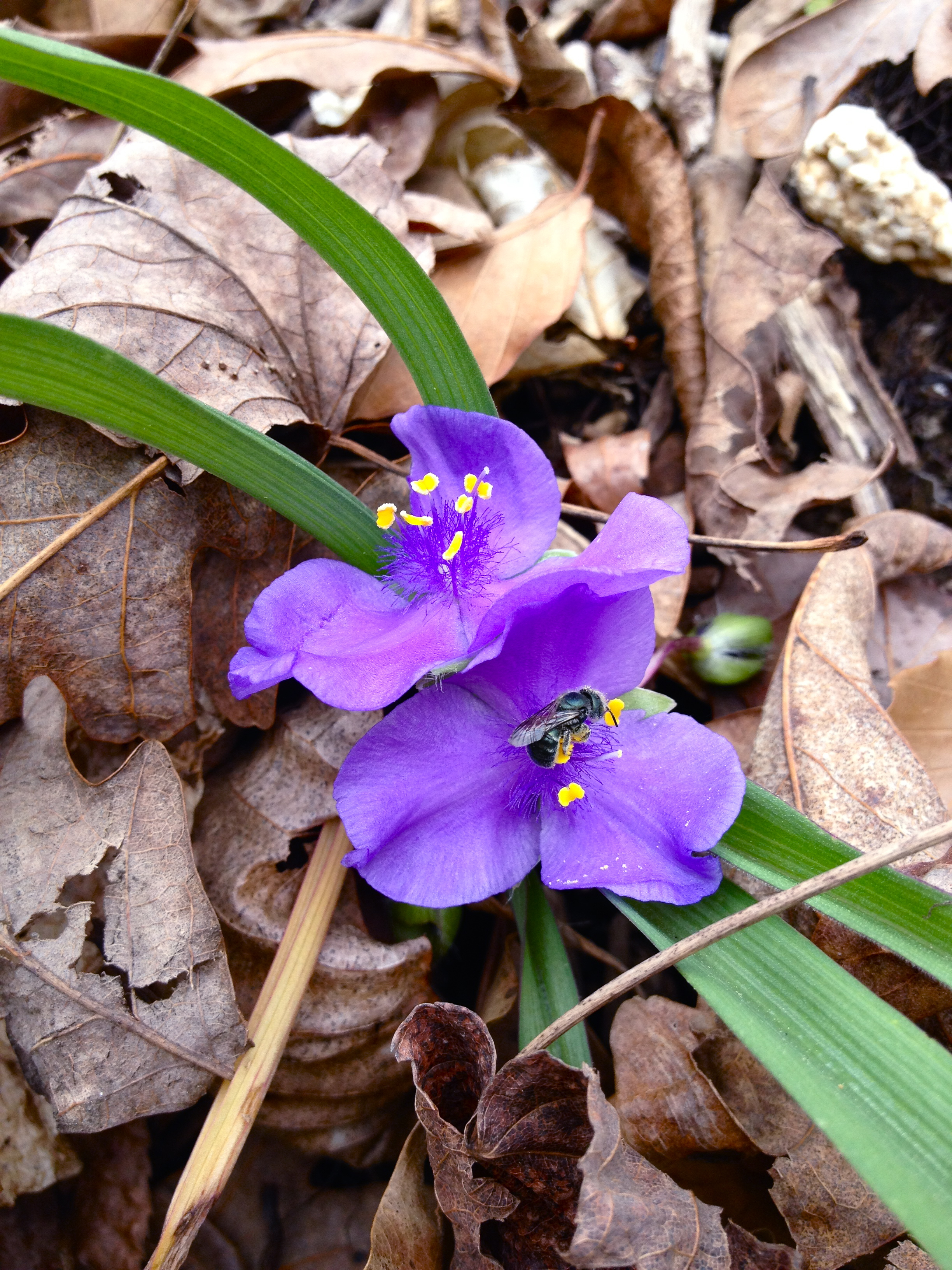 Photo of Tradescantia virginiana in flower. This is a native plant growing wild in Great Falls Park, Fairfax county Virginia, USA. This species is a member of the Commelinaceae family.